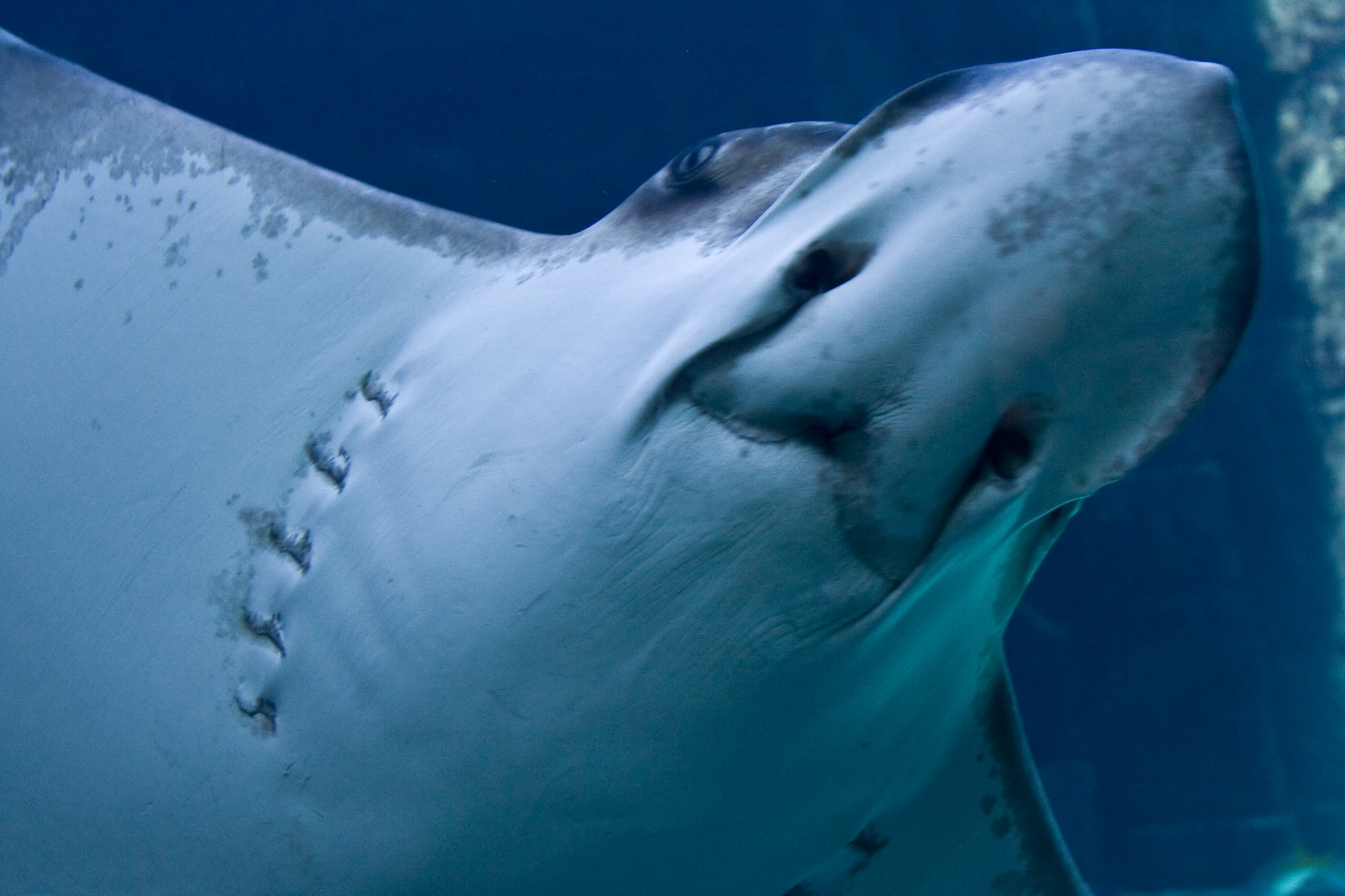 Head of a spotted eagle ray (Aetobatus narinari)